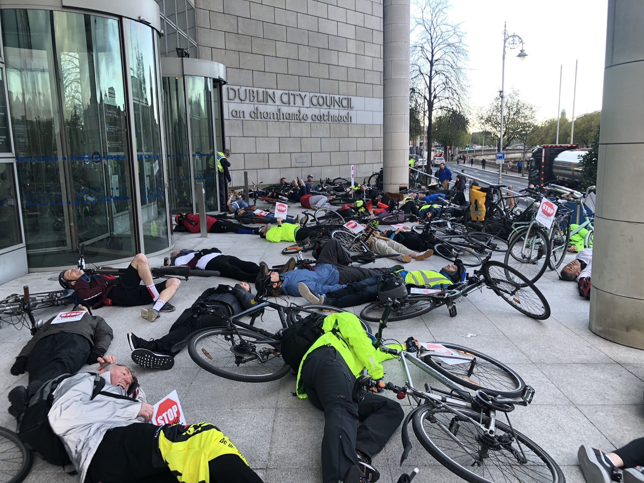 Photo of "Die in" outside Dublin City Council offices by I BIKE Dublin